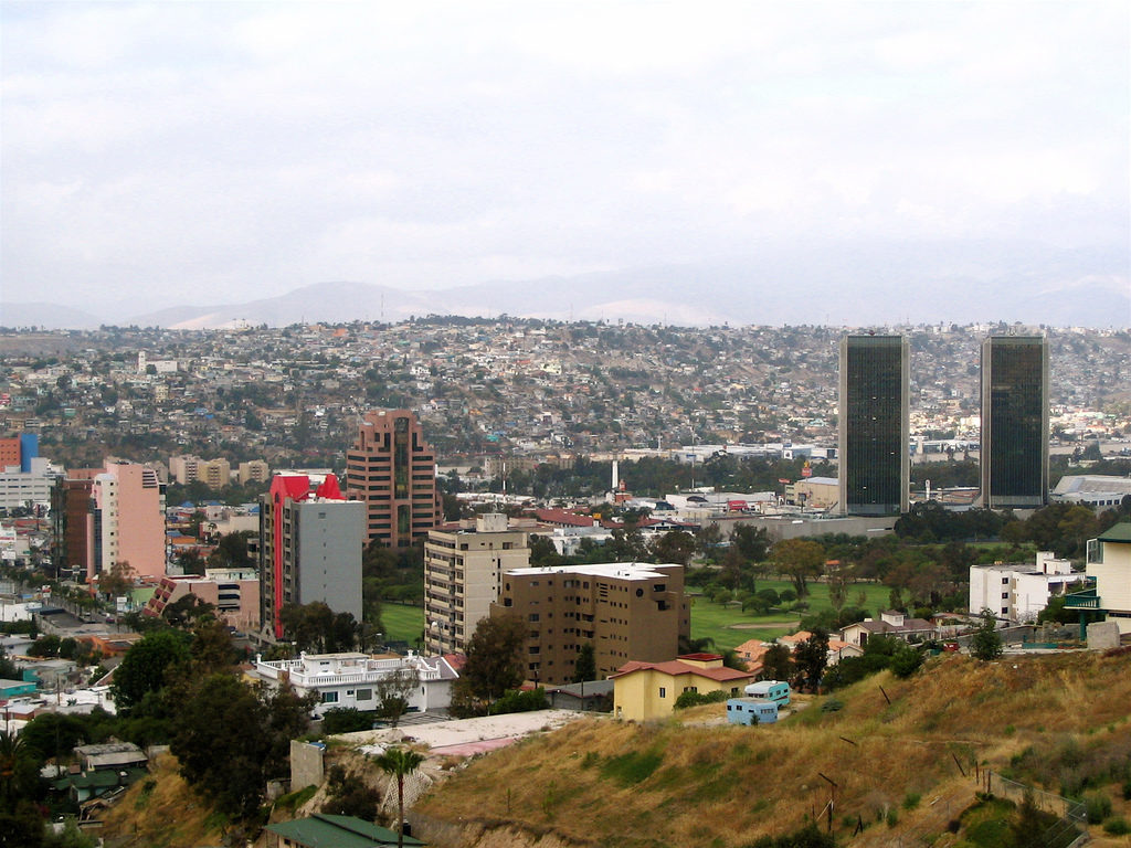 Rio Zone in Tijuana